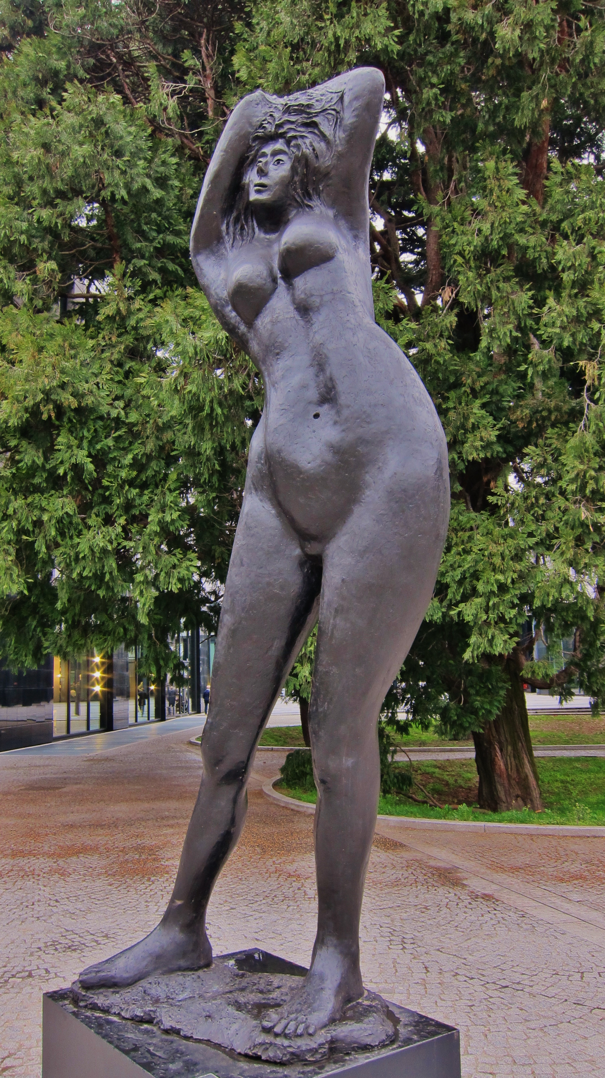 "Nuredduna" statue made by Aligi Sassu in 1995 and located in via Antonio Barlocco (Legnano), seen from the right side.